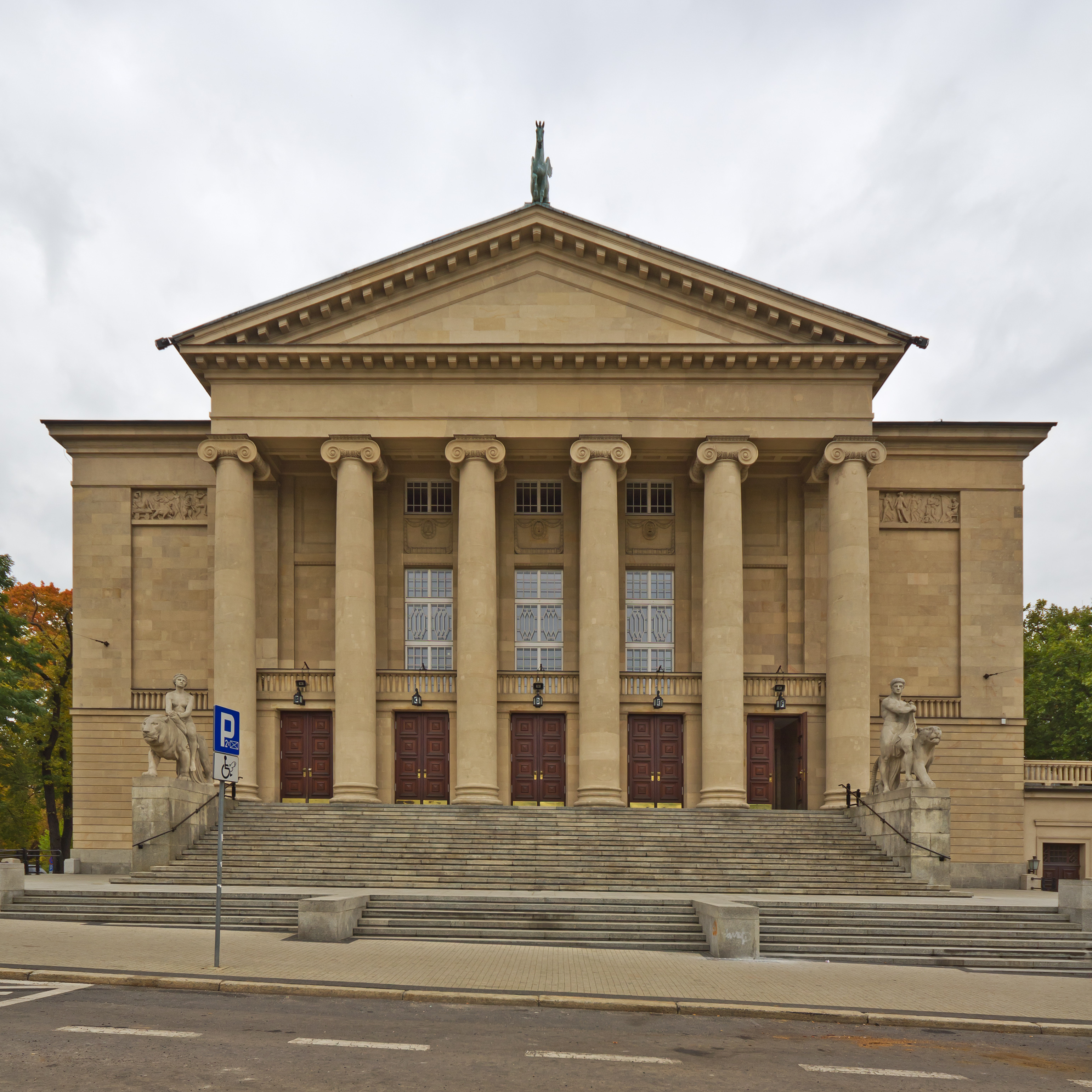 The Grand Theatre in Poznań, Greater Poland